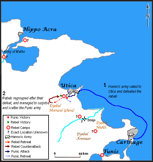 Generic representation about the battle of Utica in 240 BC. Reference material is from the Histories of Polybius available in Public domain.